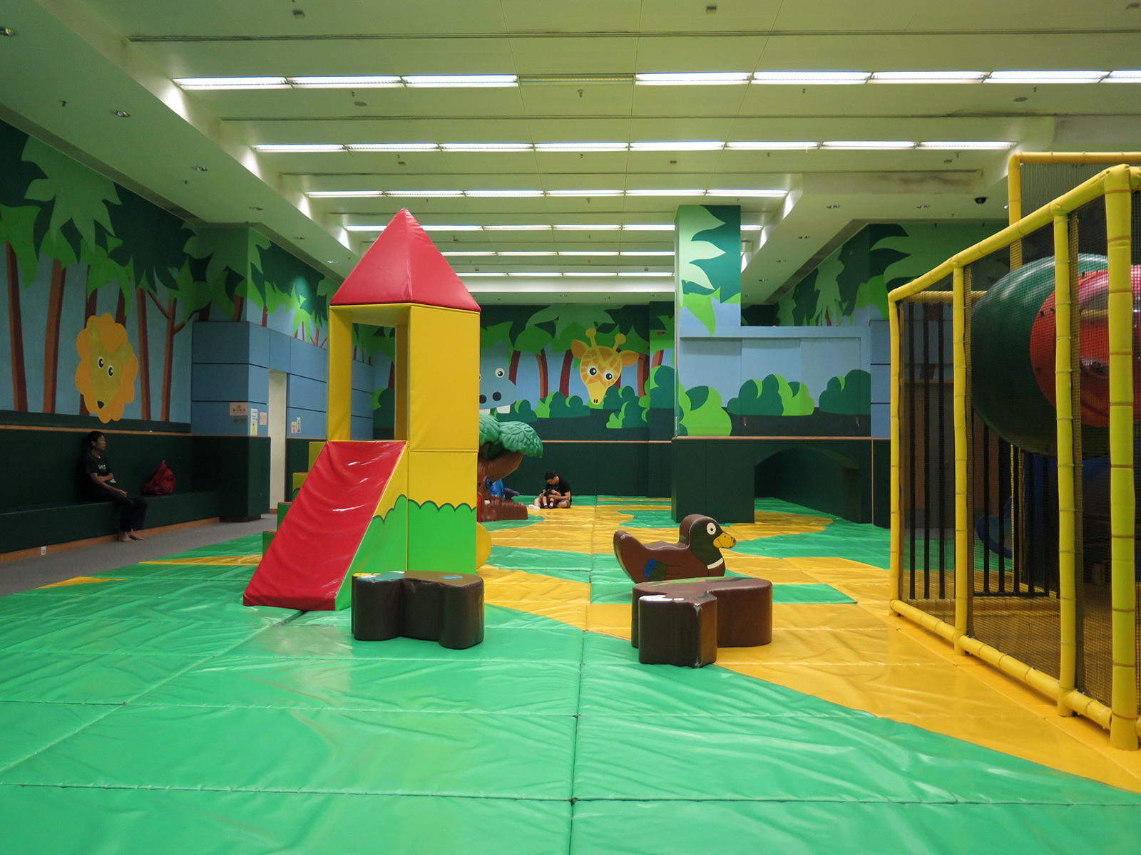 Tai Kok Tsui Municipal Services Building Level 6 Children Game Room